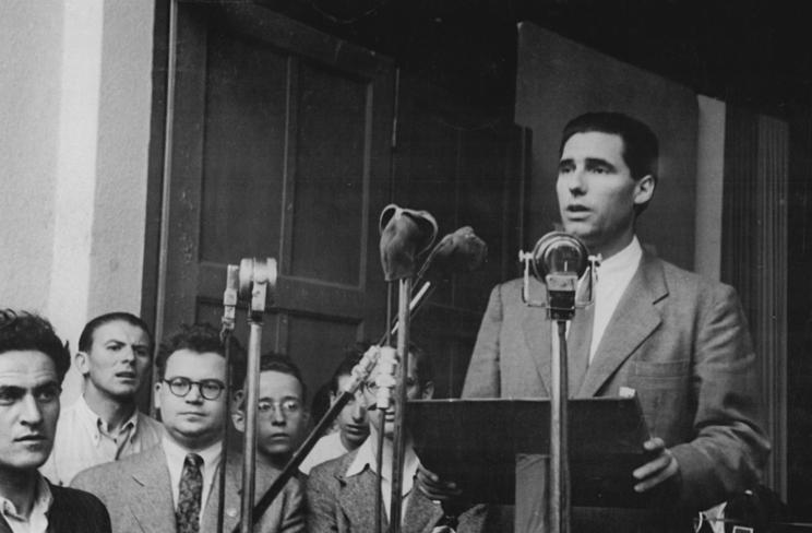 Guy de Boisson, President of World Federation of Democratic Youth, at the Second World Festival of Youth and Students (Budapest, 1949)